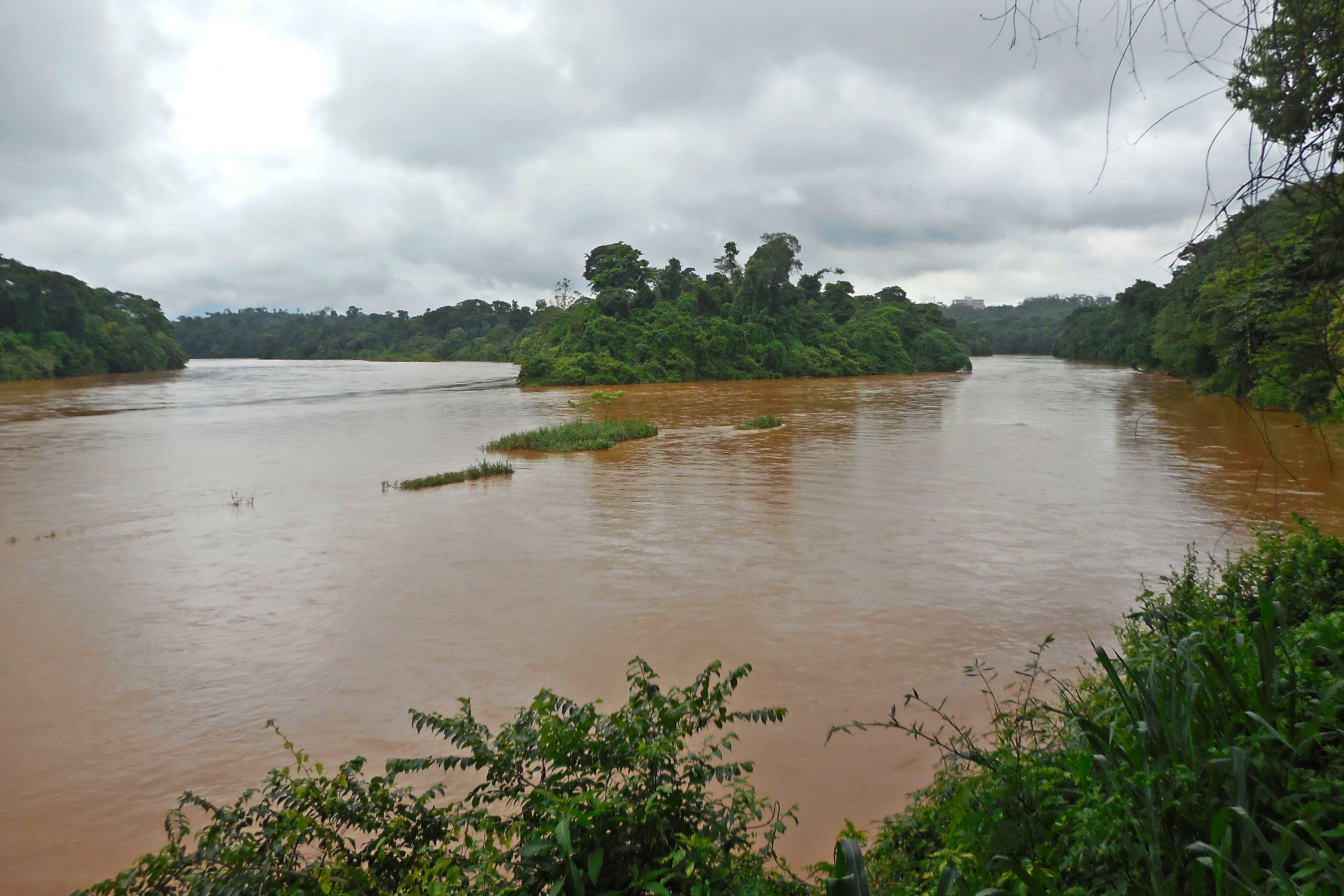 Piracicaba River mouth in the Doce River between Timóteo and Ipatinga, Minas Gerais, Brazil, seen from of the overlook of the Pedra Mole train station, in Ipatinga.